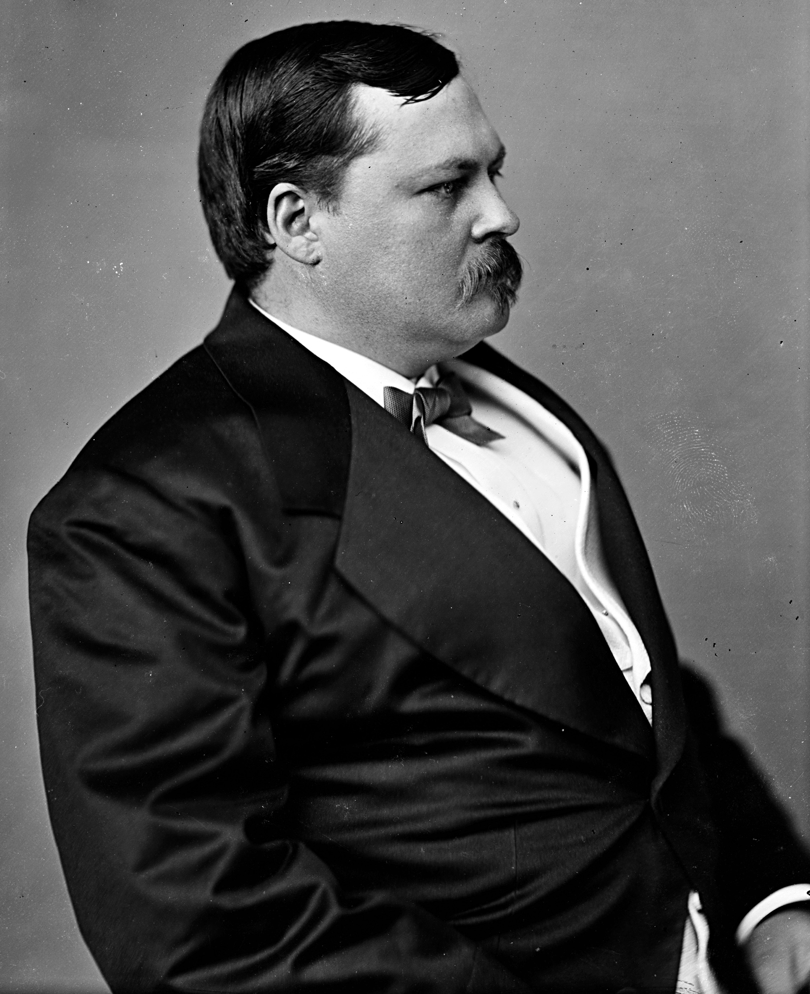 Joseph Jorgensen, US Representative from Virginia